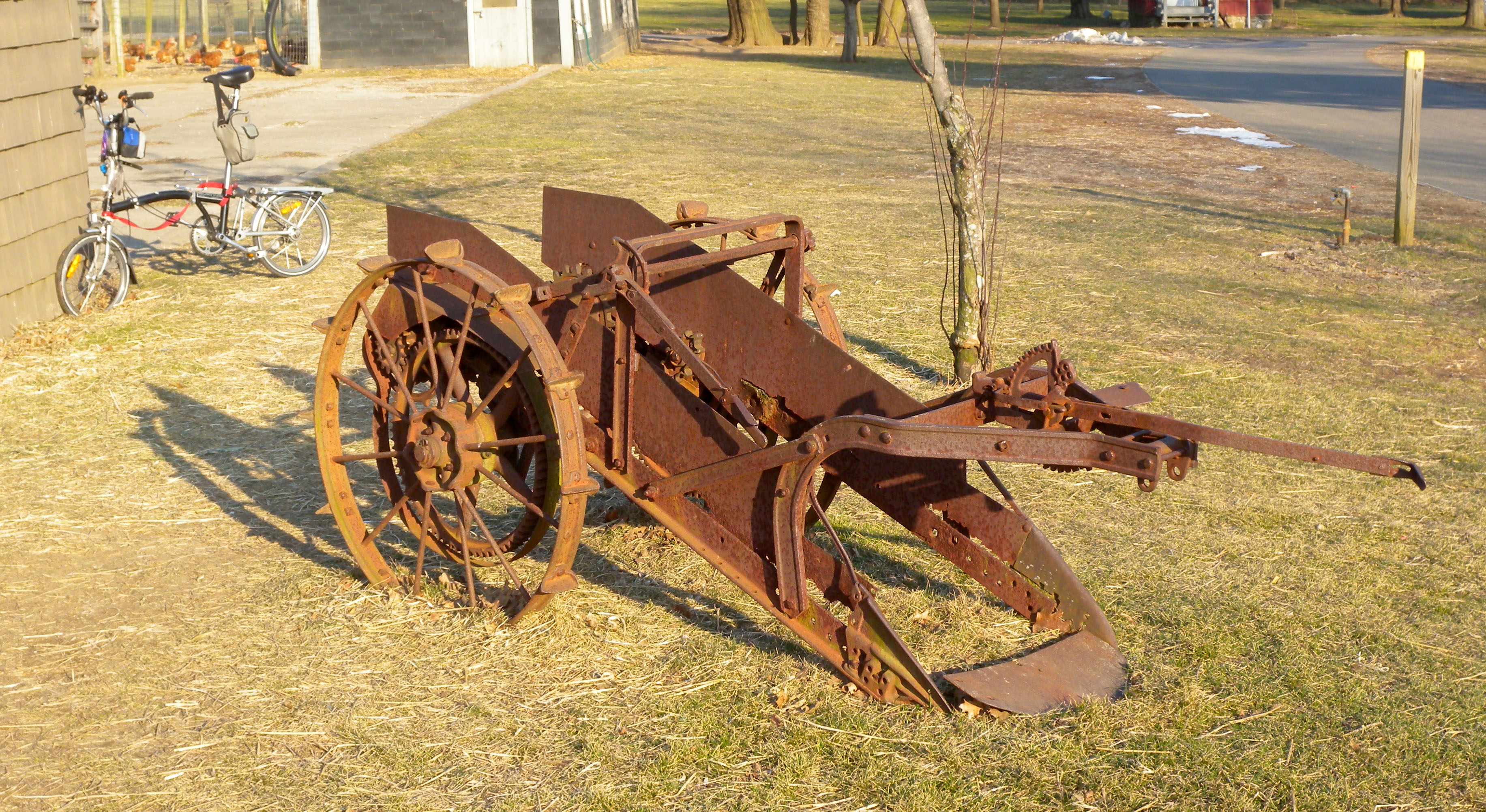 Looking northeast at unidentified farm machine at QCFM, and photographer's bike behind, on a sunny late afternoon.